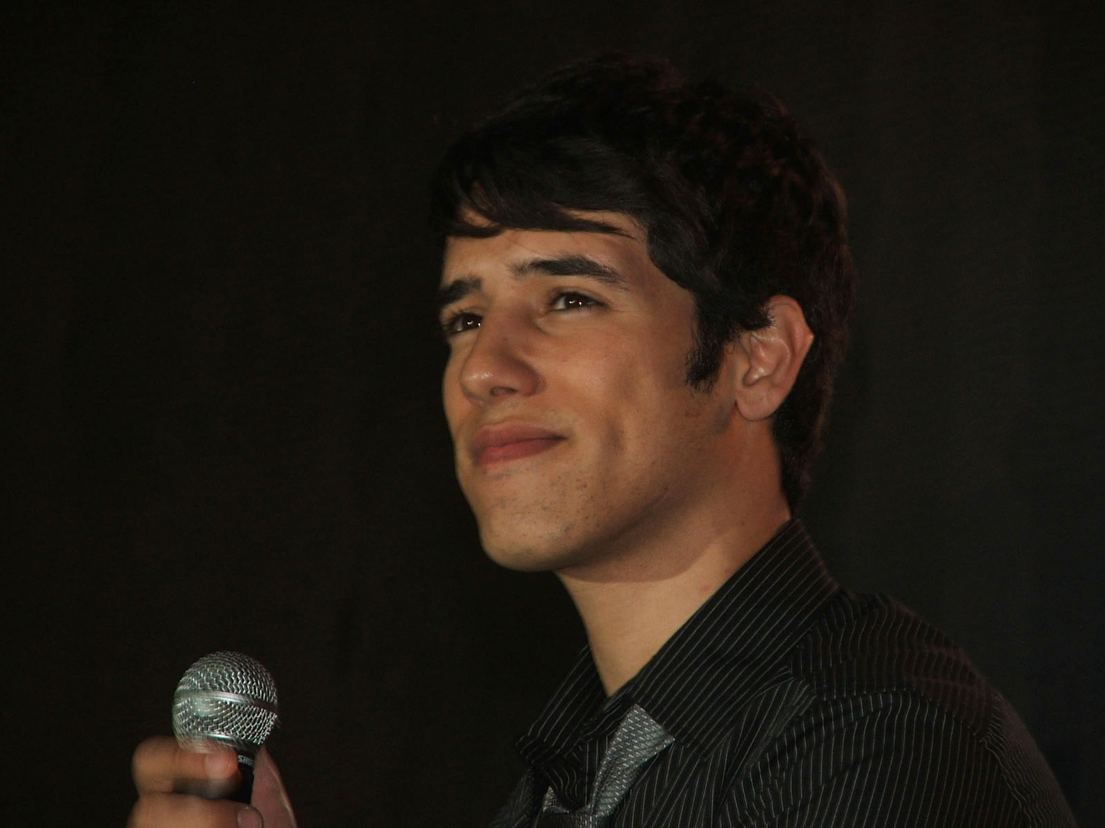 Harel Skaat, an Israeli singer